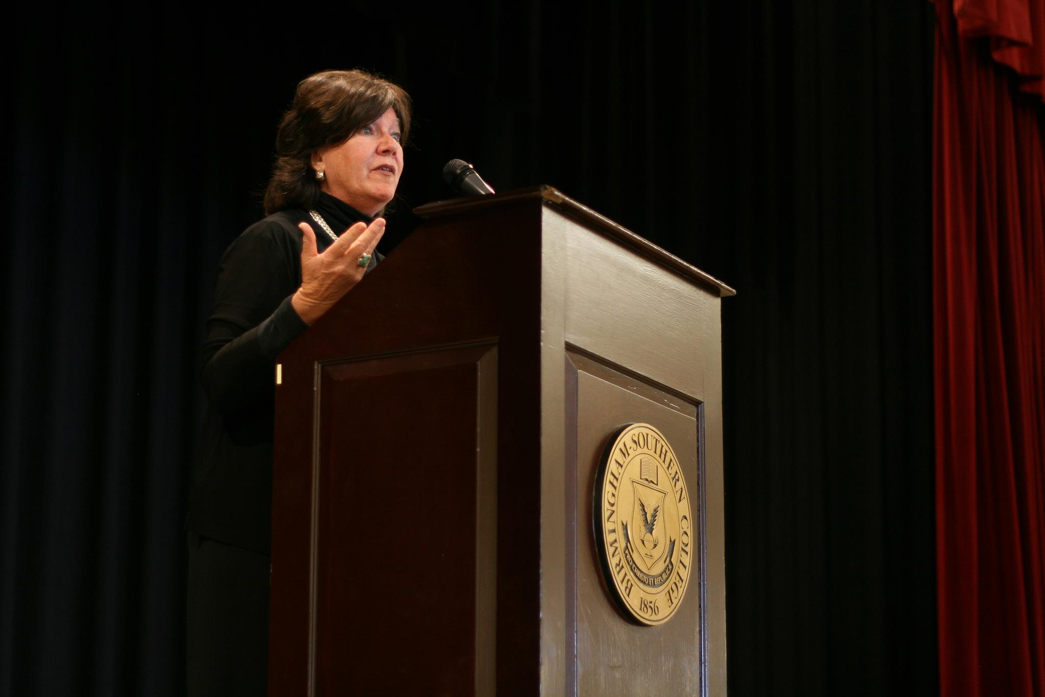 Mary Badham speaks to Birmingham Southern College students in Birmingham, AL on November 8th 2012